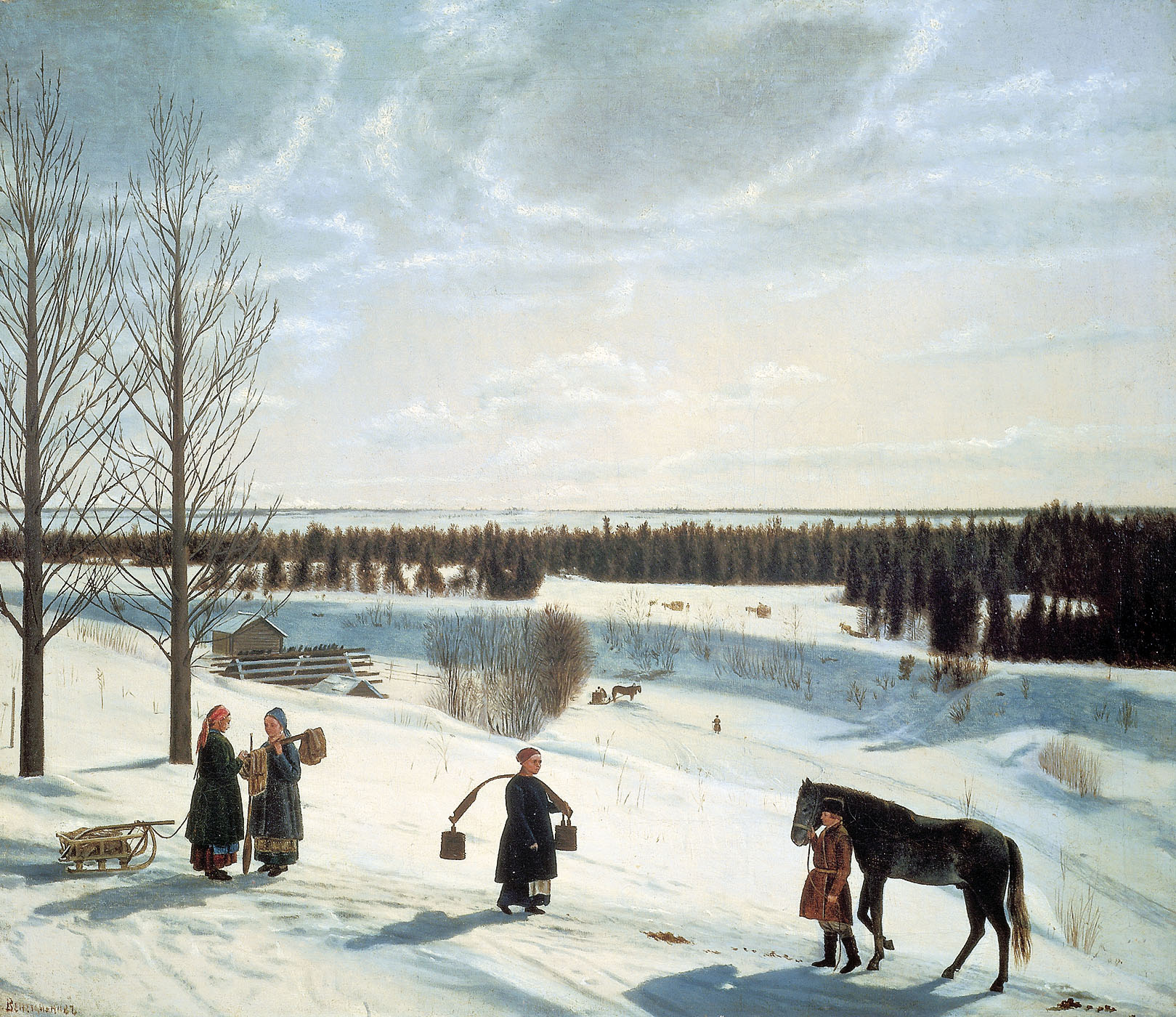 Russian winter